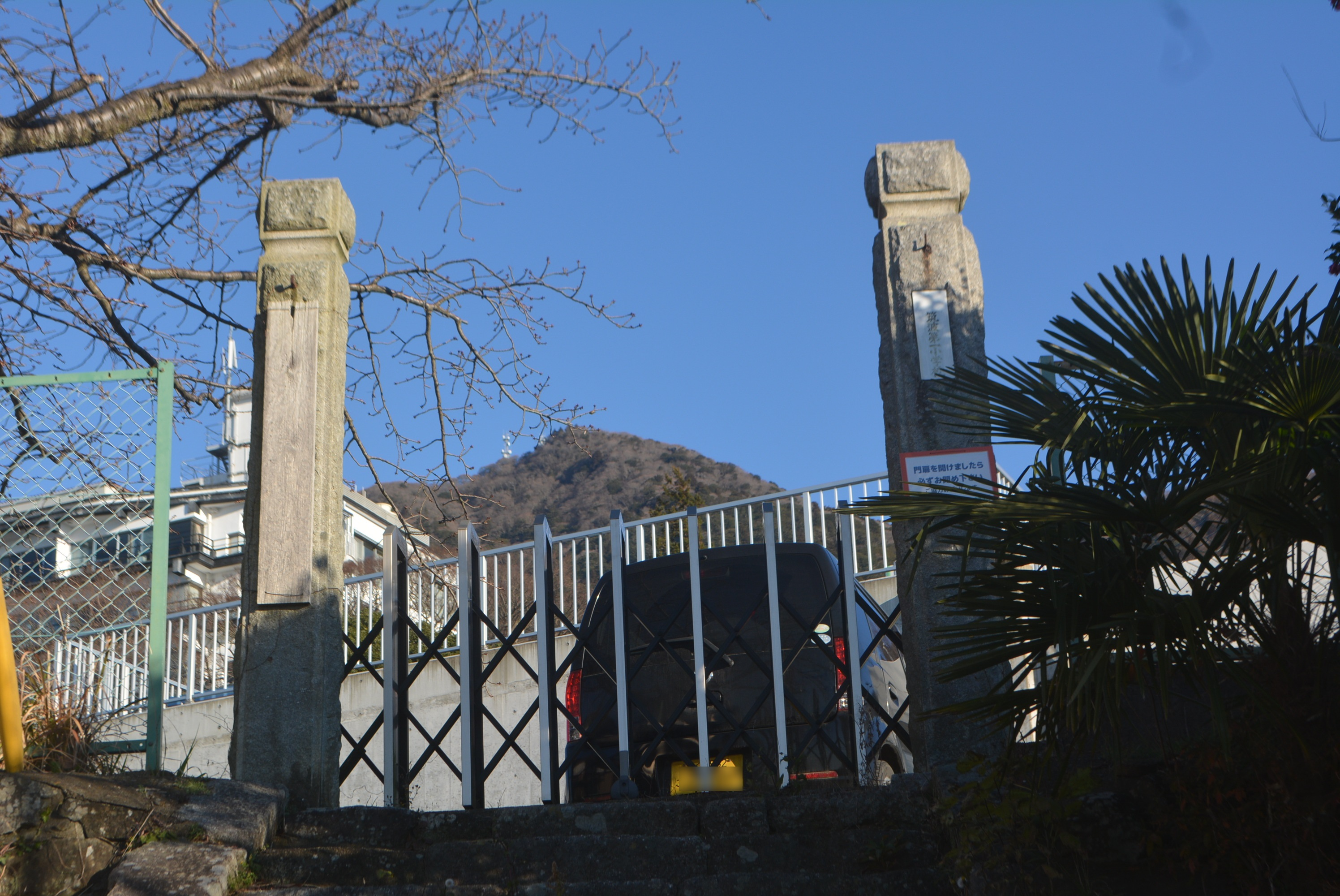 Gate of the former Tsukuba Daiichi elementary school,Tsukuba city,Japan